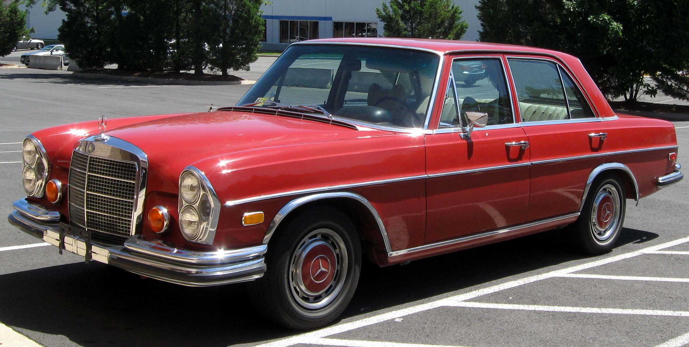 Mercedes-Benz W108 photographed in Chantilly, Virginia, USA.